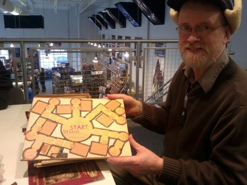 Dave with his original Dungeons playtest game.